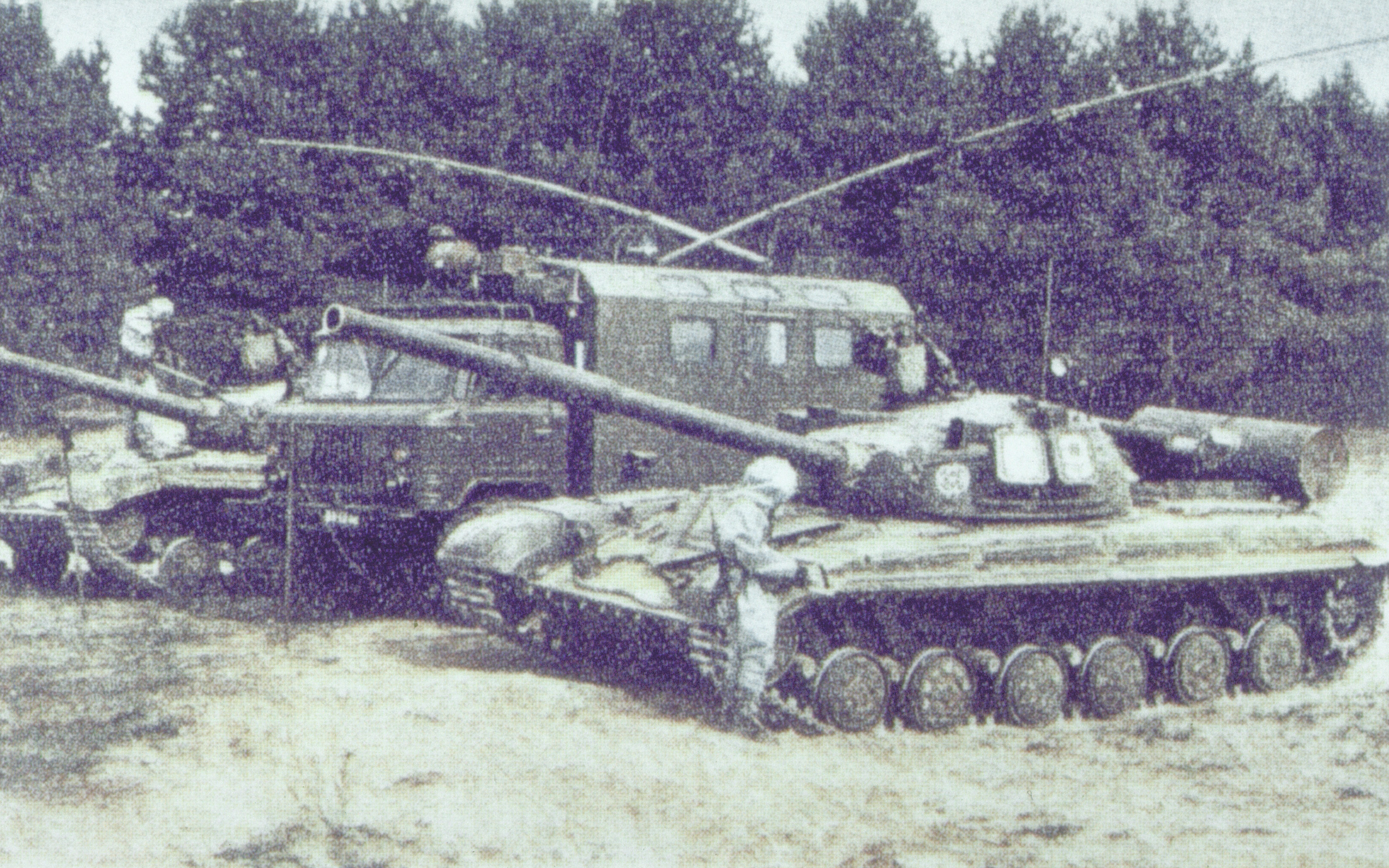 Soviet infantrymen wearing chemical and biological protective gear conduct a decontamination exercise on T-64 main battle tanks and a GAZ-66 cargo truck.